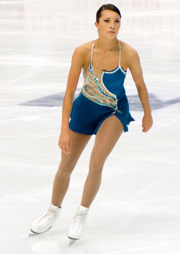 2010 Cup of Russia, free skating.